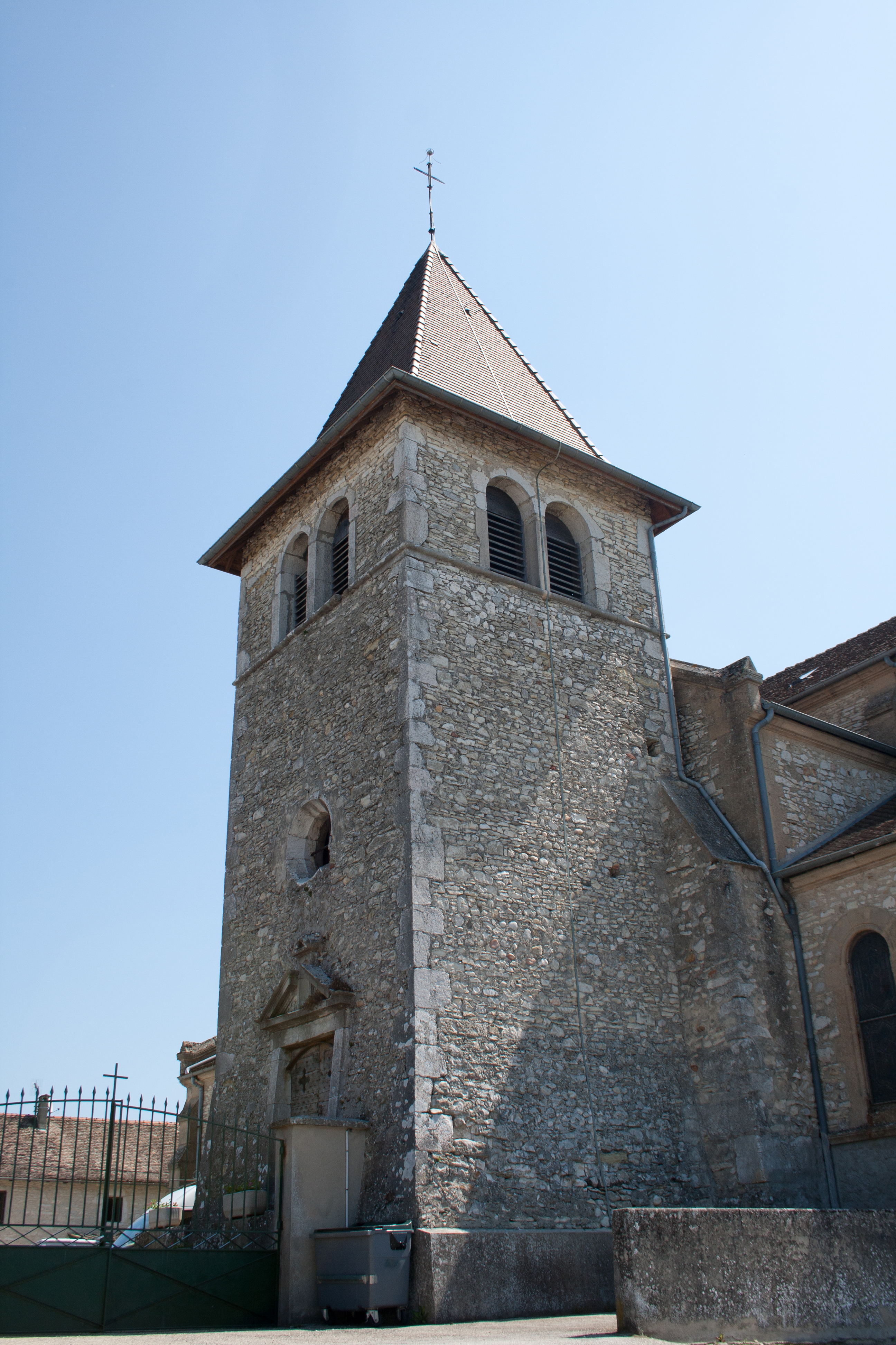 Church of Siccieu-Saint-Julien, France.